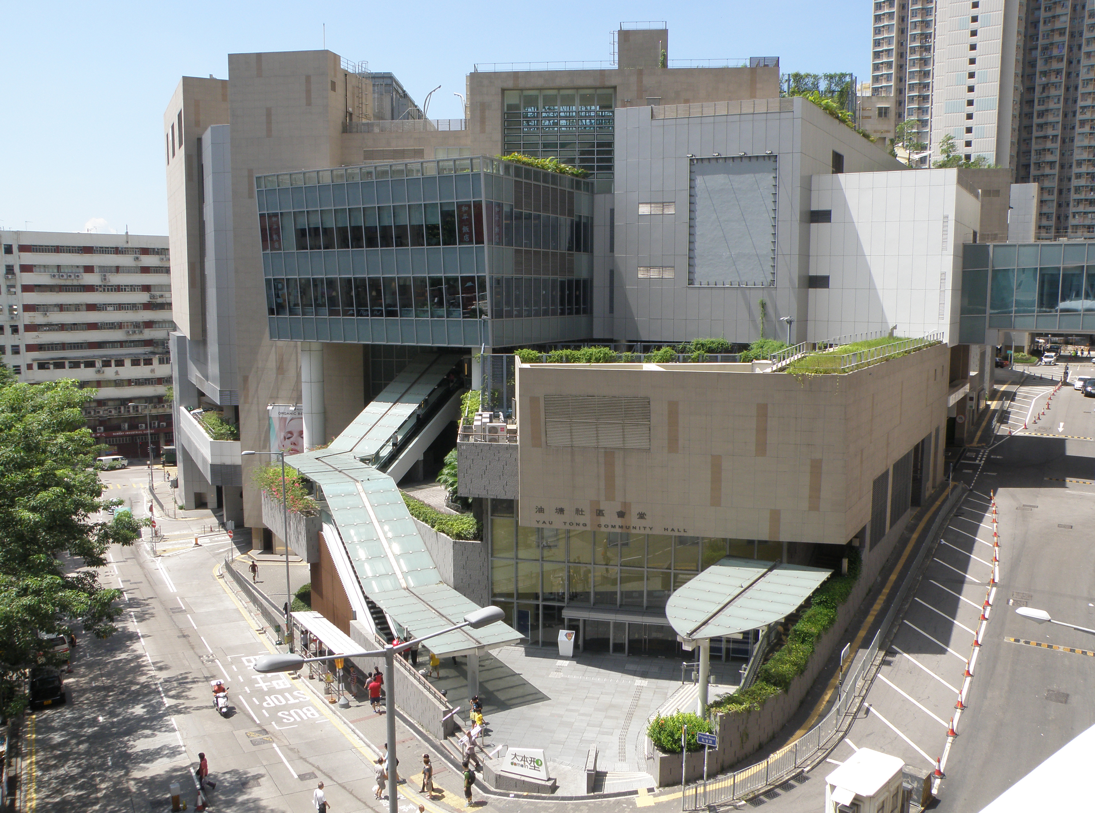 Domain in Yau Tong, Hong Kong.